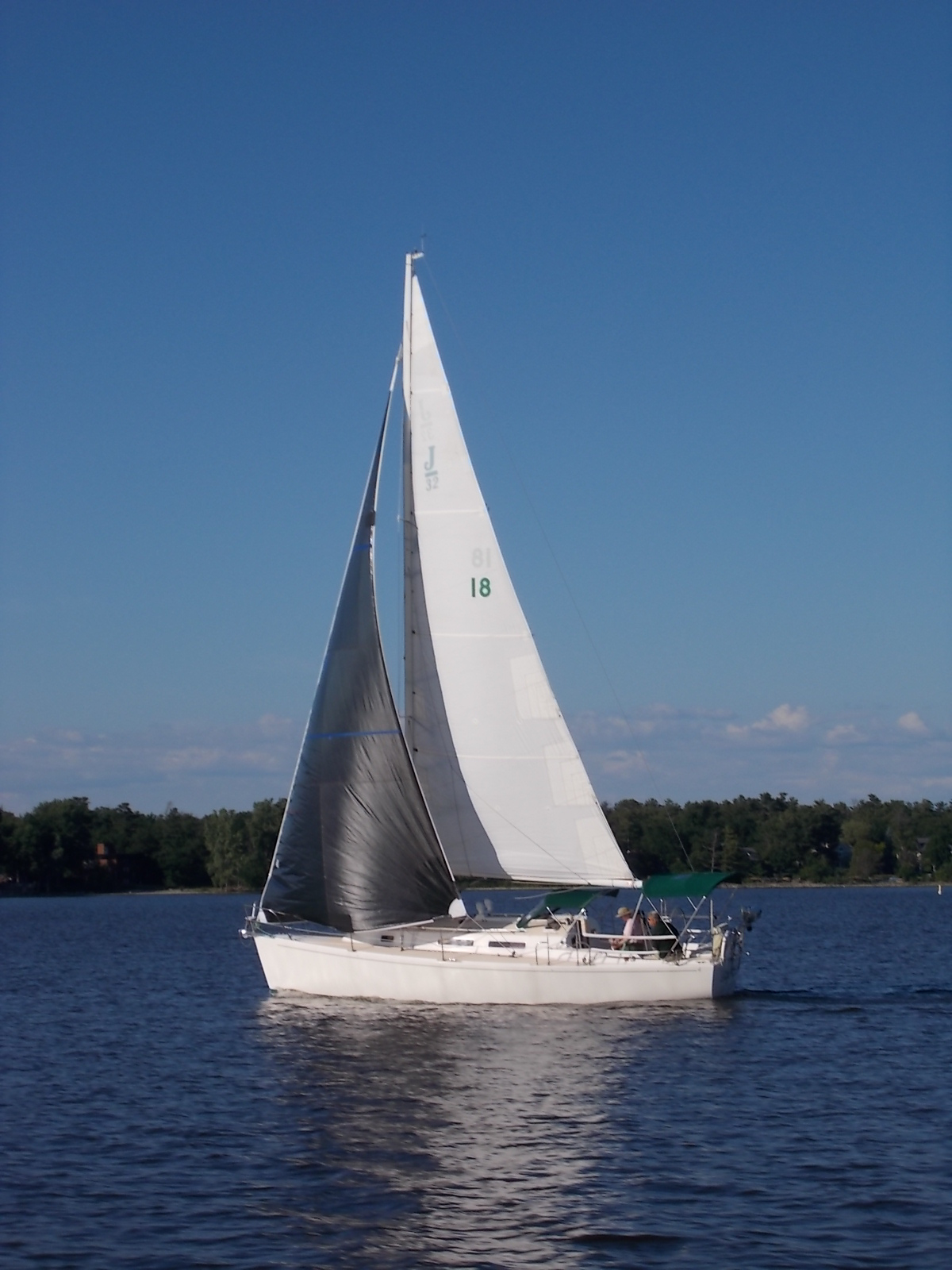 J32 Sailboat Lady Cait on Lac Deschênes, part of the Ottawa River, Ottawa, Ontario, Canada